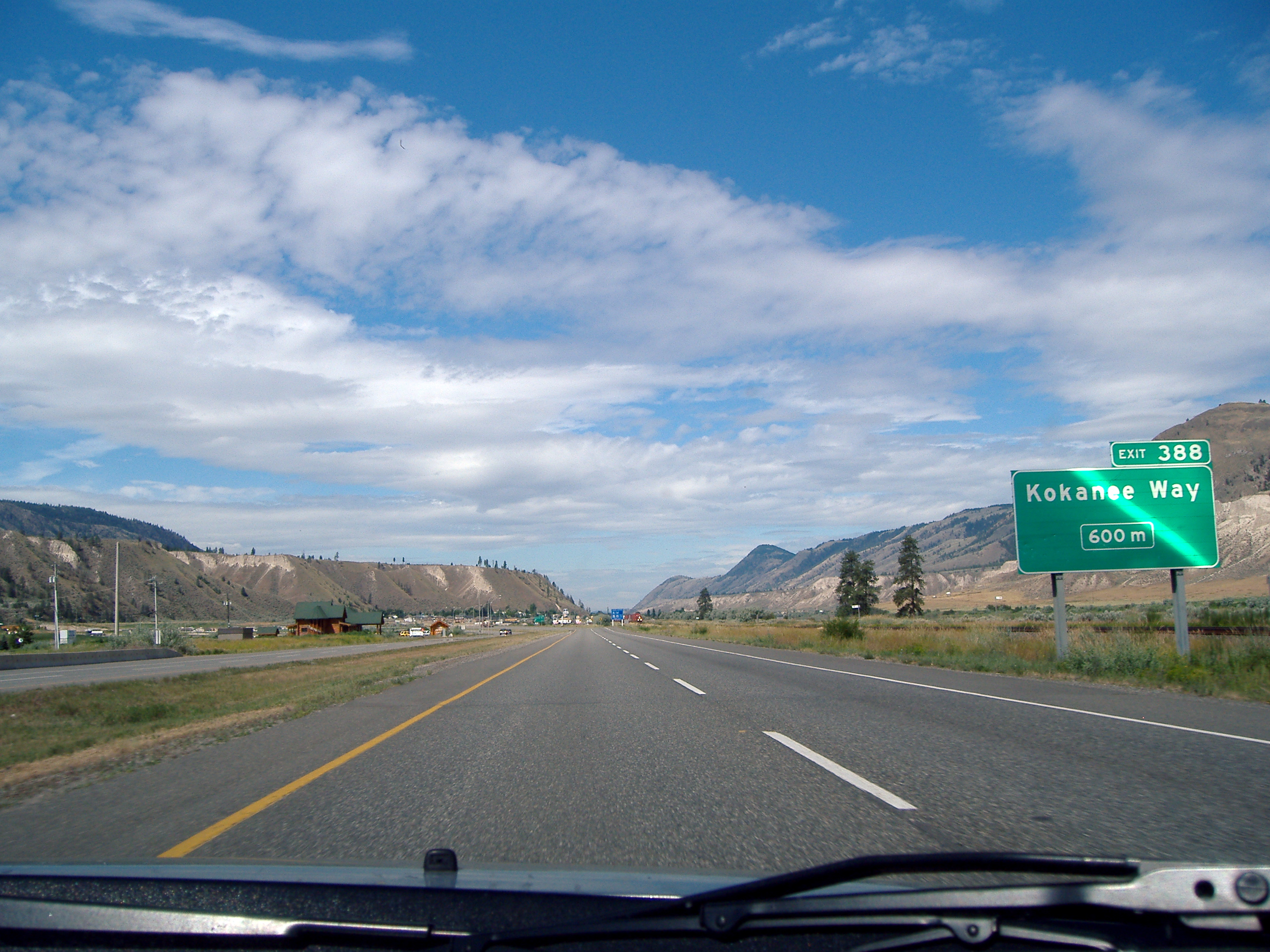 Highway 1 just east of Kamloops heading westbound. Taken on July 12th, 2006.